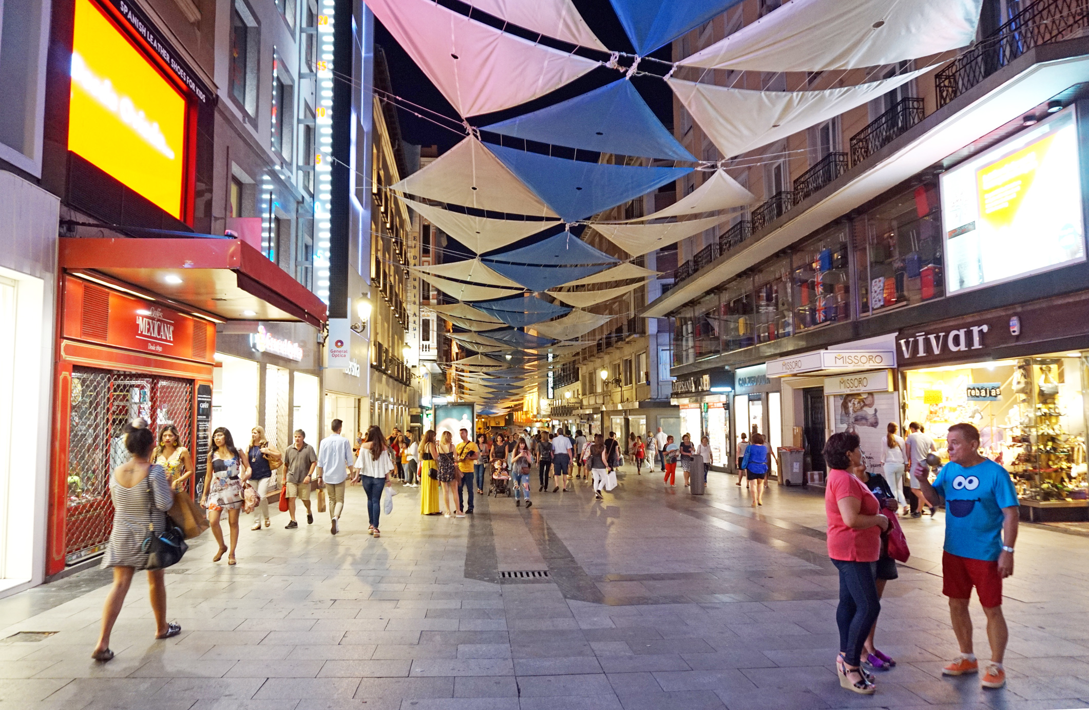 Calle Preciados in Madrid, Spain. This photograph was taken with a Sony Alpha a5000.